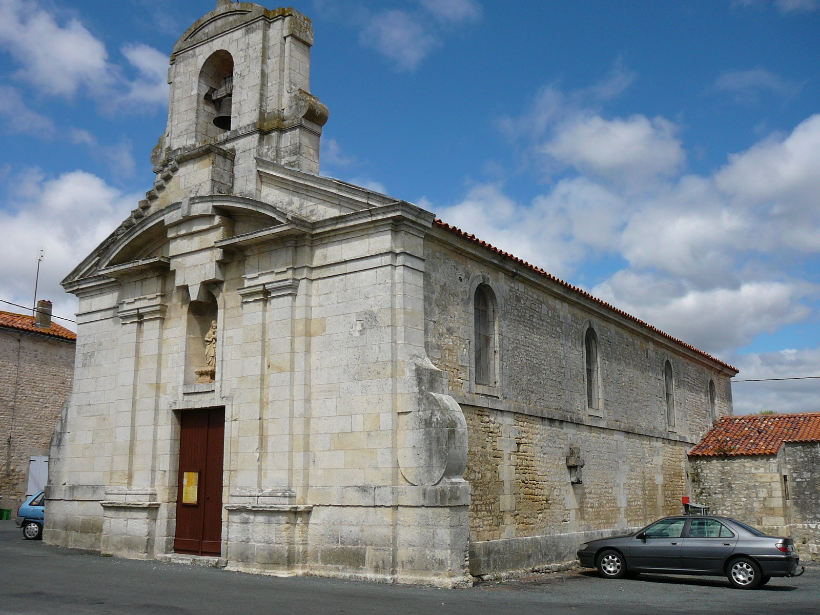 Church in Saint-Agnant. Charente-Maritime (17), Poitou-Charentes, France, Europe.